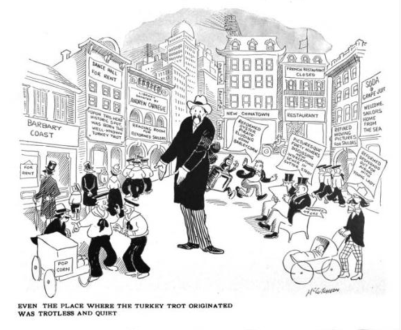 "Even the Place Where the Turkey Trot Originated was Trotless and Quiet.", illustration p. 143.